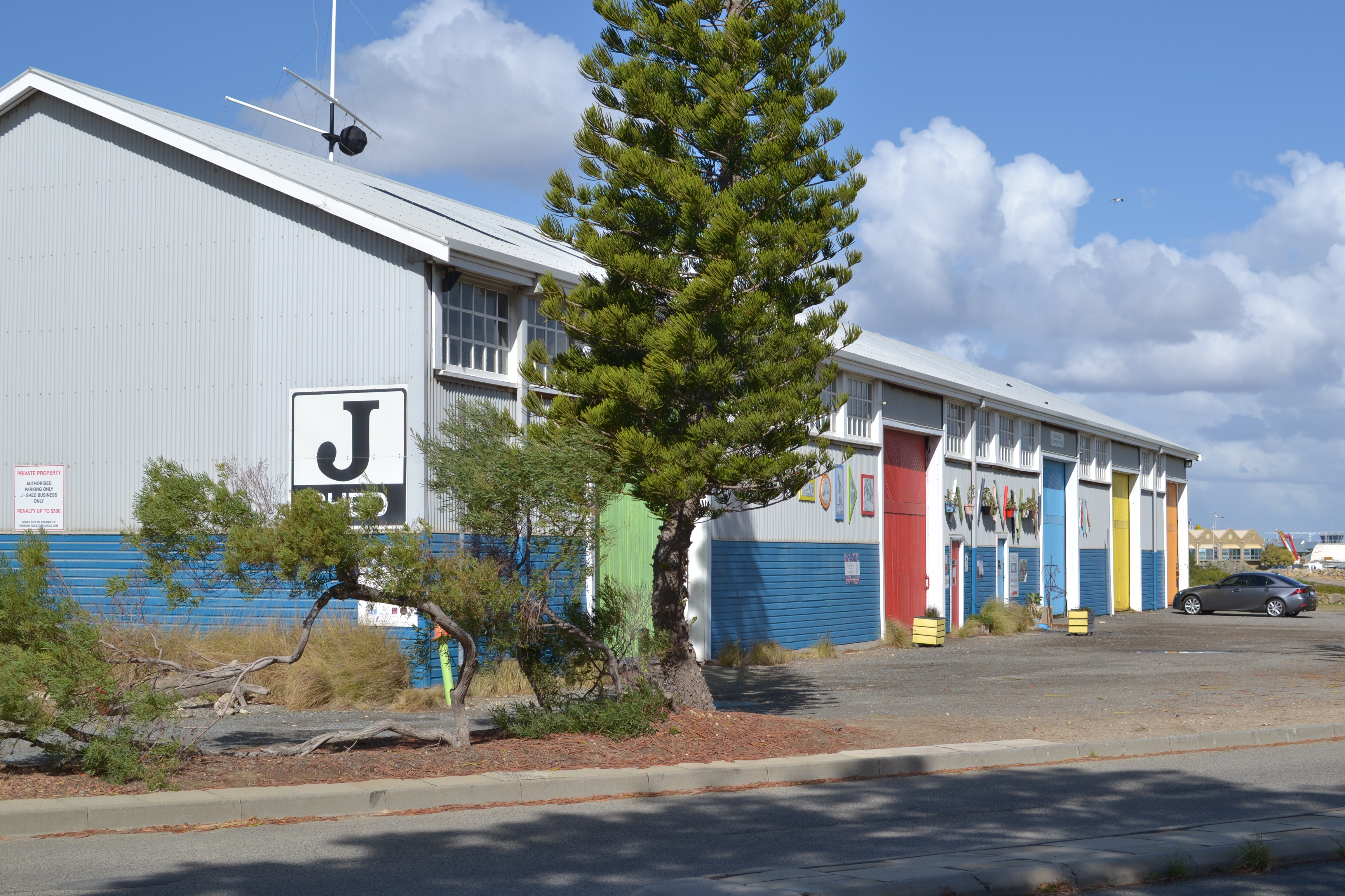 J Shed artists' studios on Fleet Street in Fremantle, with the flag mast of the Round House visible behind.